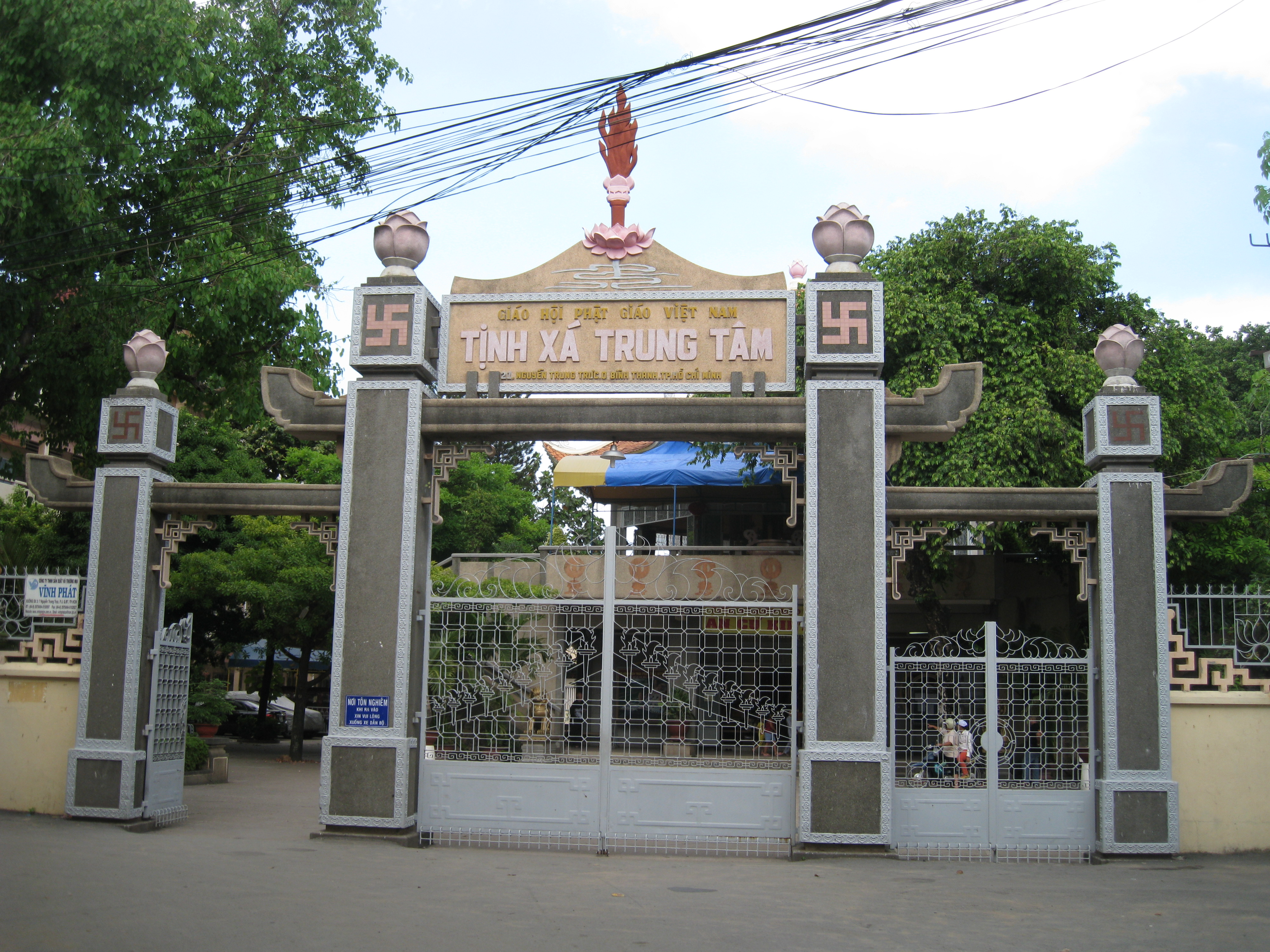 Main entrance of Tịnh Xá Trung Tâm.